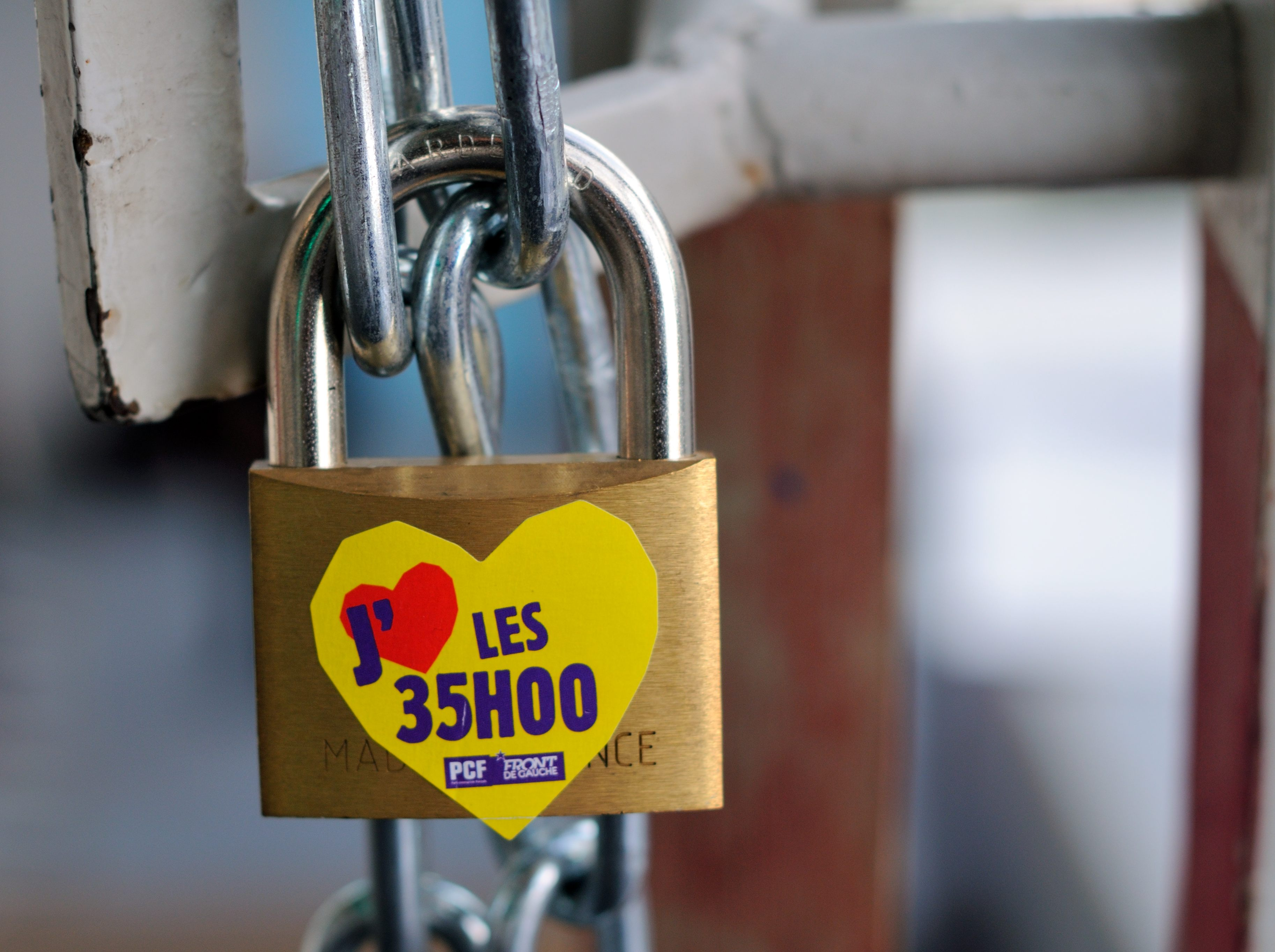 A padlock used the previous days to block the university with a sticker pro-35-hour on it.